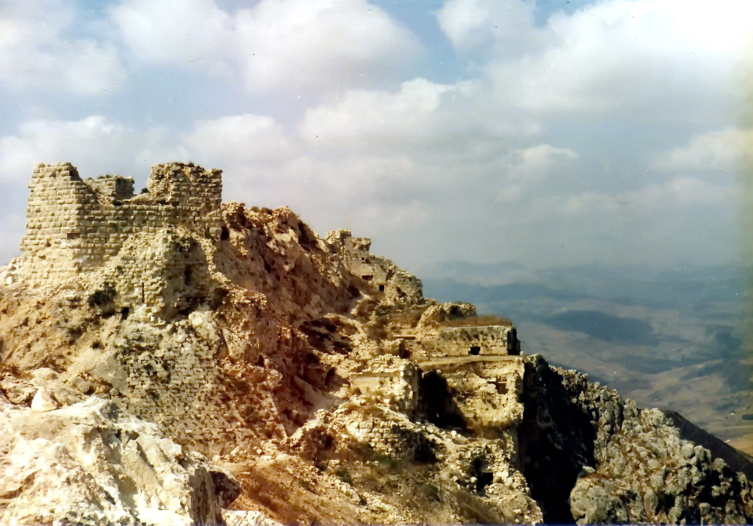 Beaufort Castle, South Lebanon, 1982